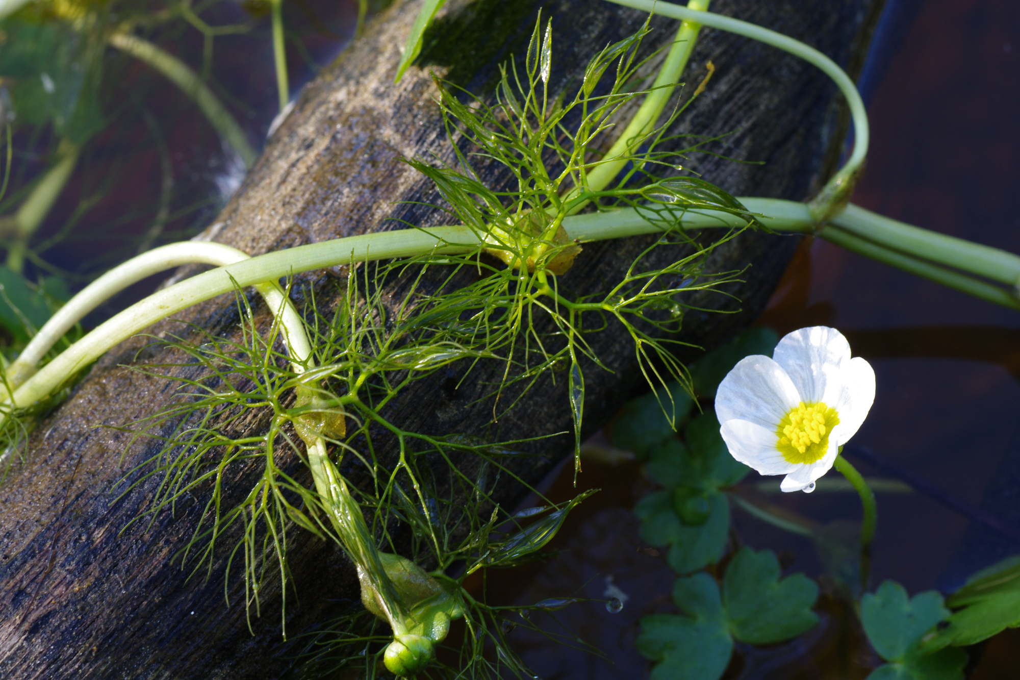 Submerse leaves of Ranunculus peltatus (Ranunculaceae).